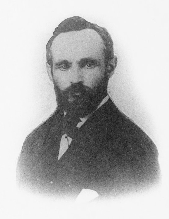 Portrait of Gustavus (Gustav) Sohon taken in 1863